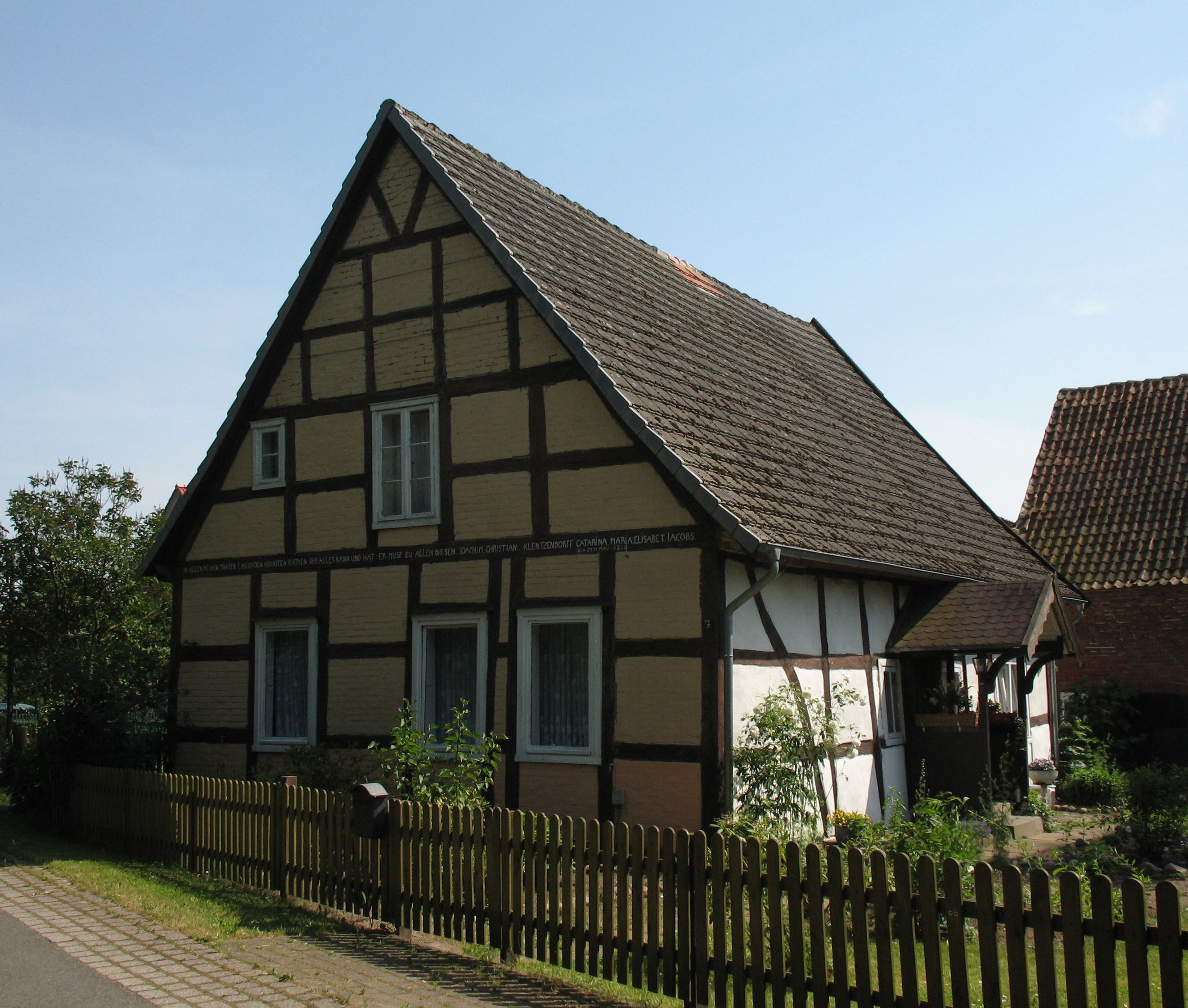 Farmstead in Lenzen-Seedorf in Brandenburg, Germany